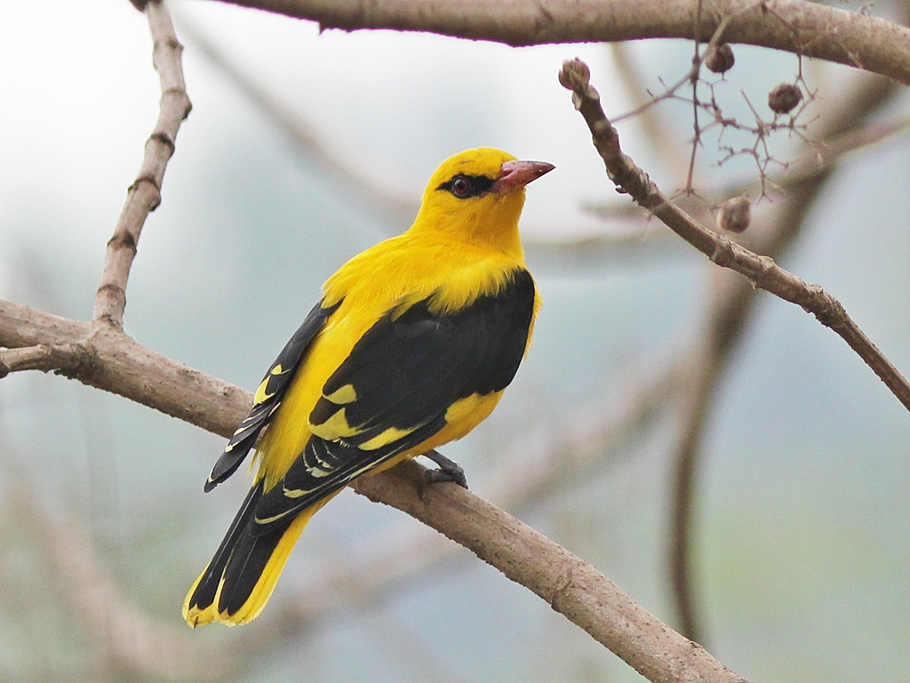 The Indian Golden Oriole Oriolus kundoo is a species of oriole found in the Indian Subcontinent and Central Asia. Very similar to the Eurasian Golden Oriole but has more yellow in the tail and has a paler shade of red in the iris and bill. The male, as seen here, has the black eye stripe extending behind the eye, a large carpal patch on the wing and wide yellow tips to the secondaries and tertiaries. The Indian Golden Oriole inhabits a range of habitats including open deciduous forests, semi-evergreen forests, woodland, forest edge, mangroves, open country with scattered trees, parks, gardens orchards and plantations.